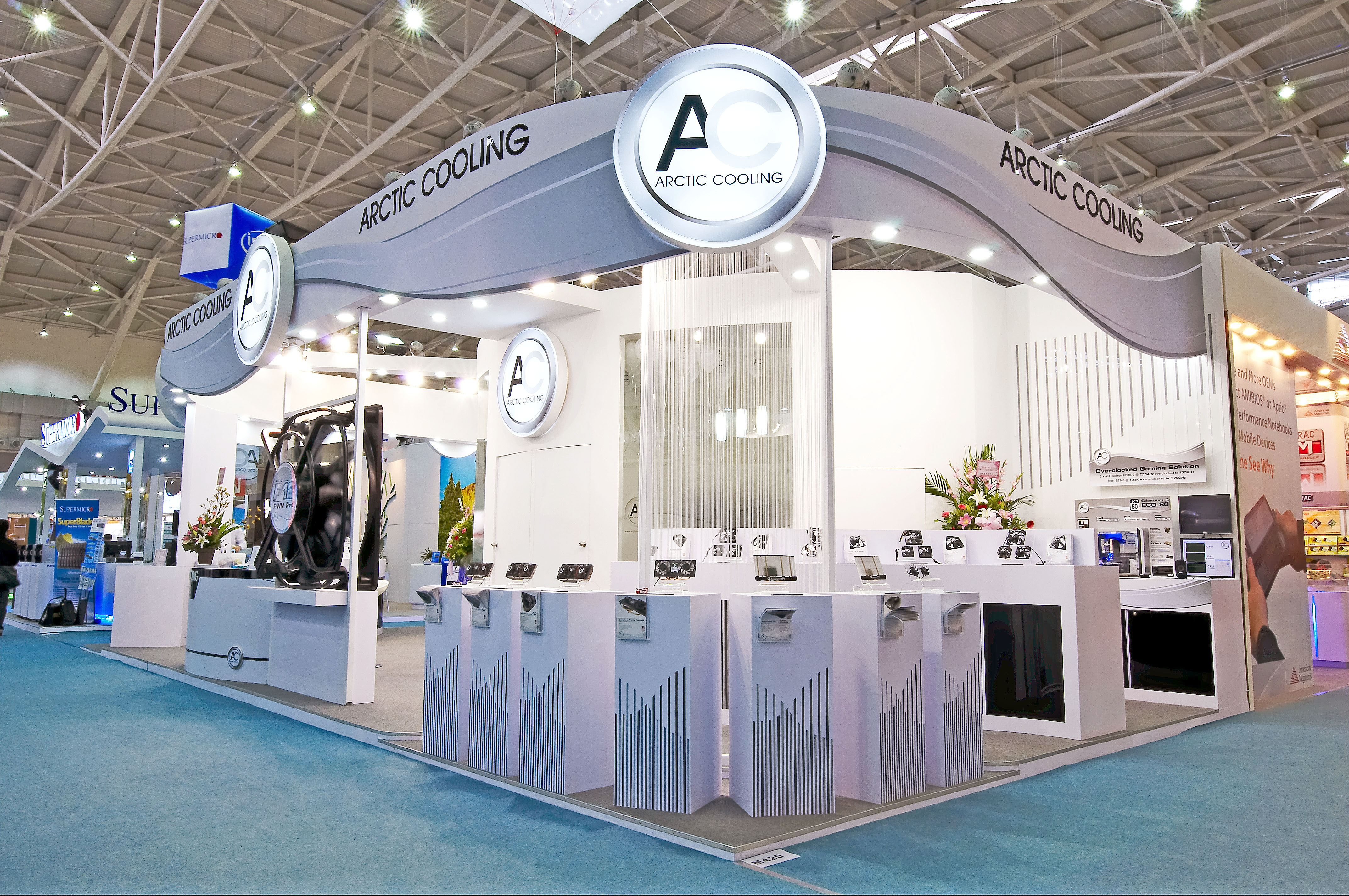 arctic cooling booth during Computex 2008 in Taiwan